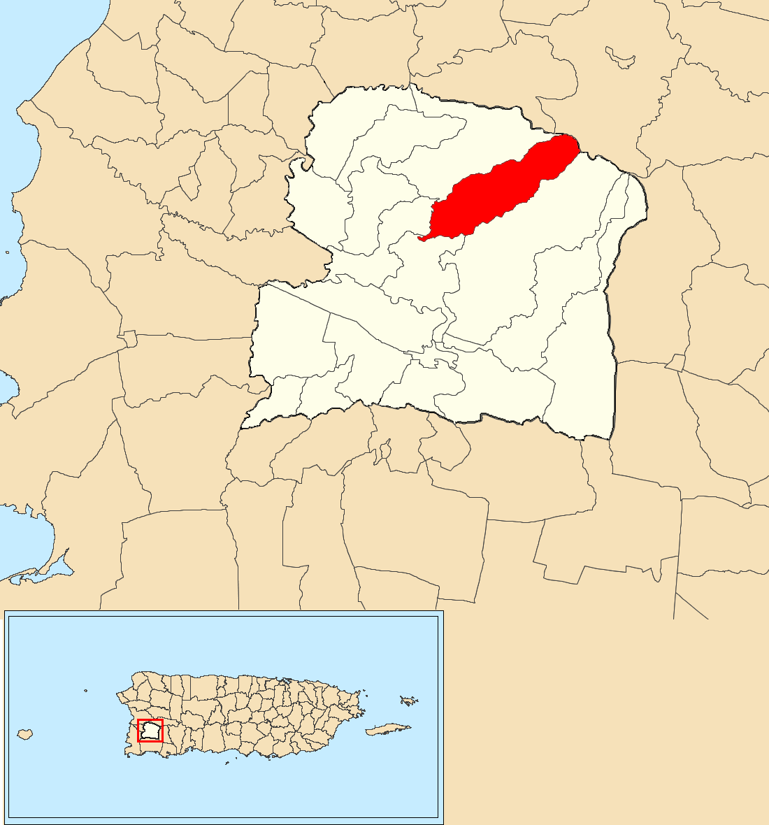 Hoconuco Alto, San Germán, Puerto Rico locator map